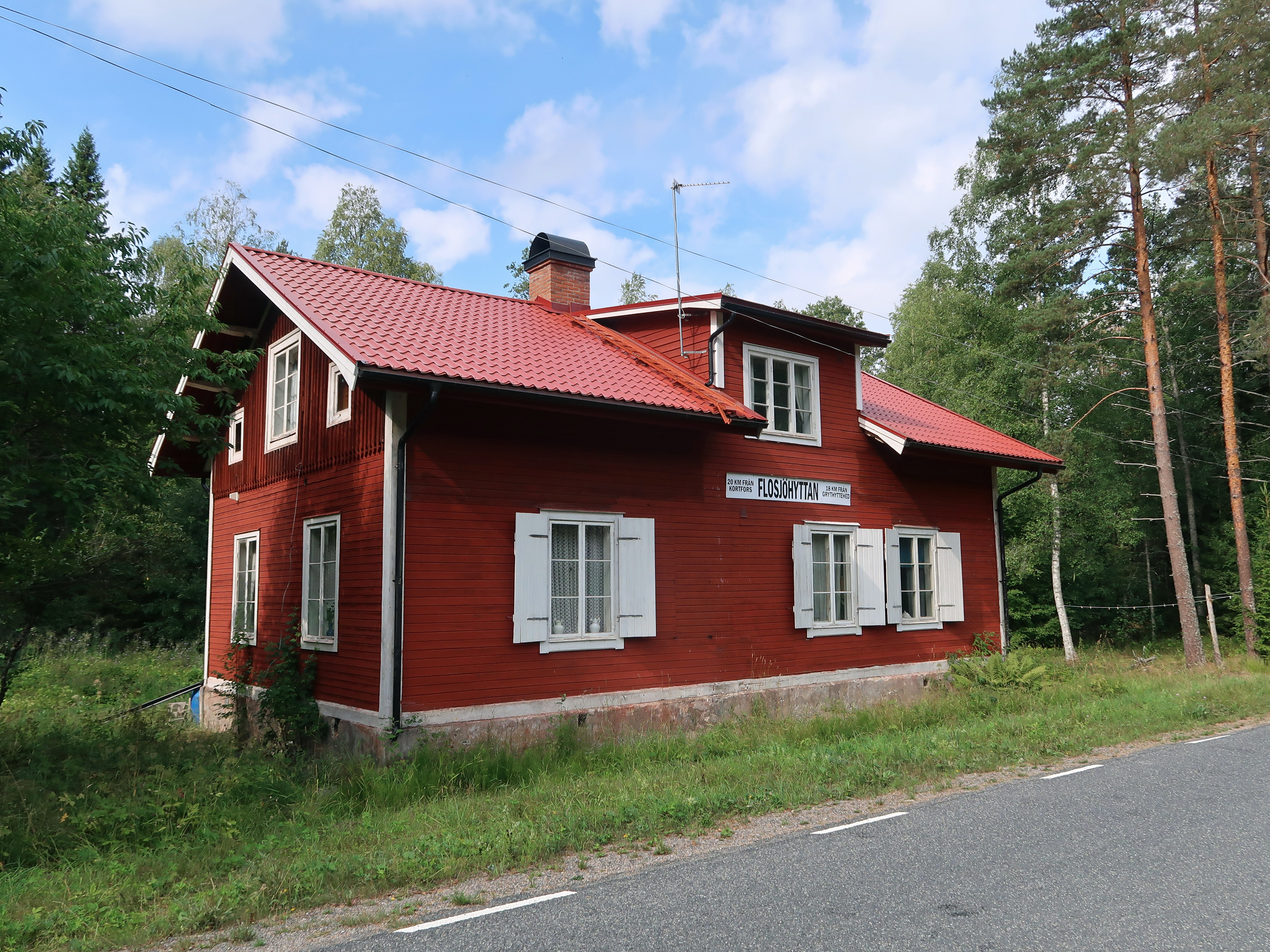 Flosjöhyttan Station at former Svartälvs järnväg. Station and Railway closed 15 May 1936.